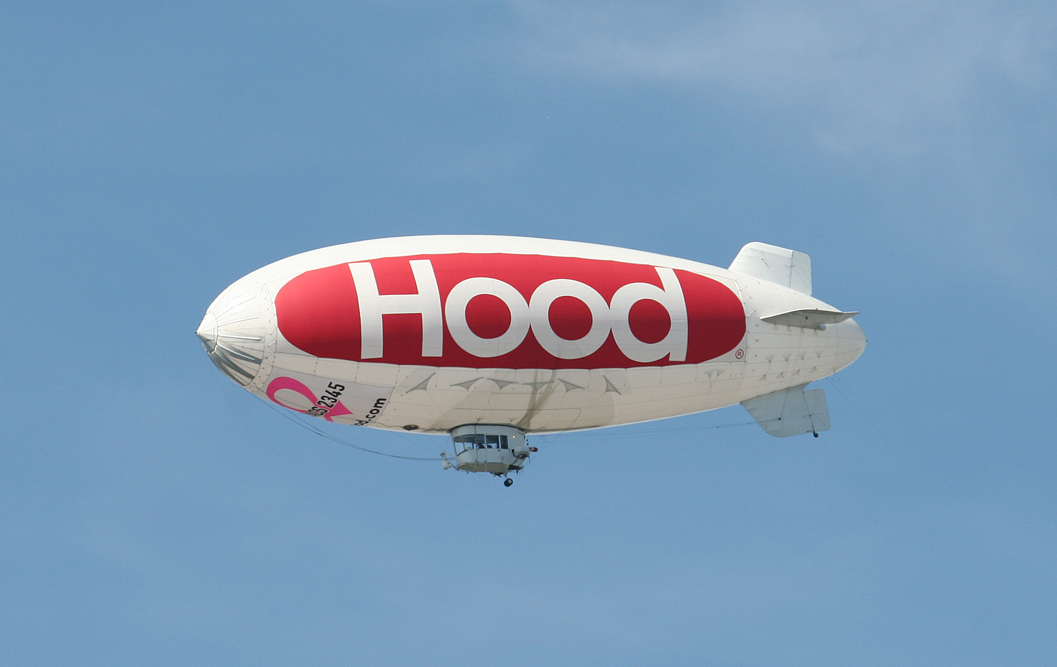 Hood Blimp heads to Fenway Park to watch over another Red Sox game - Fall 2005